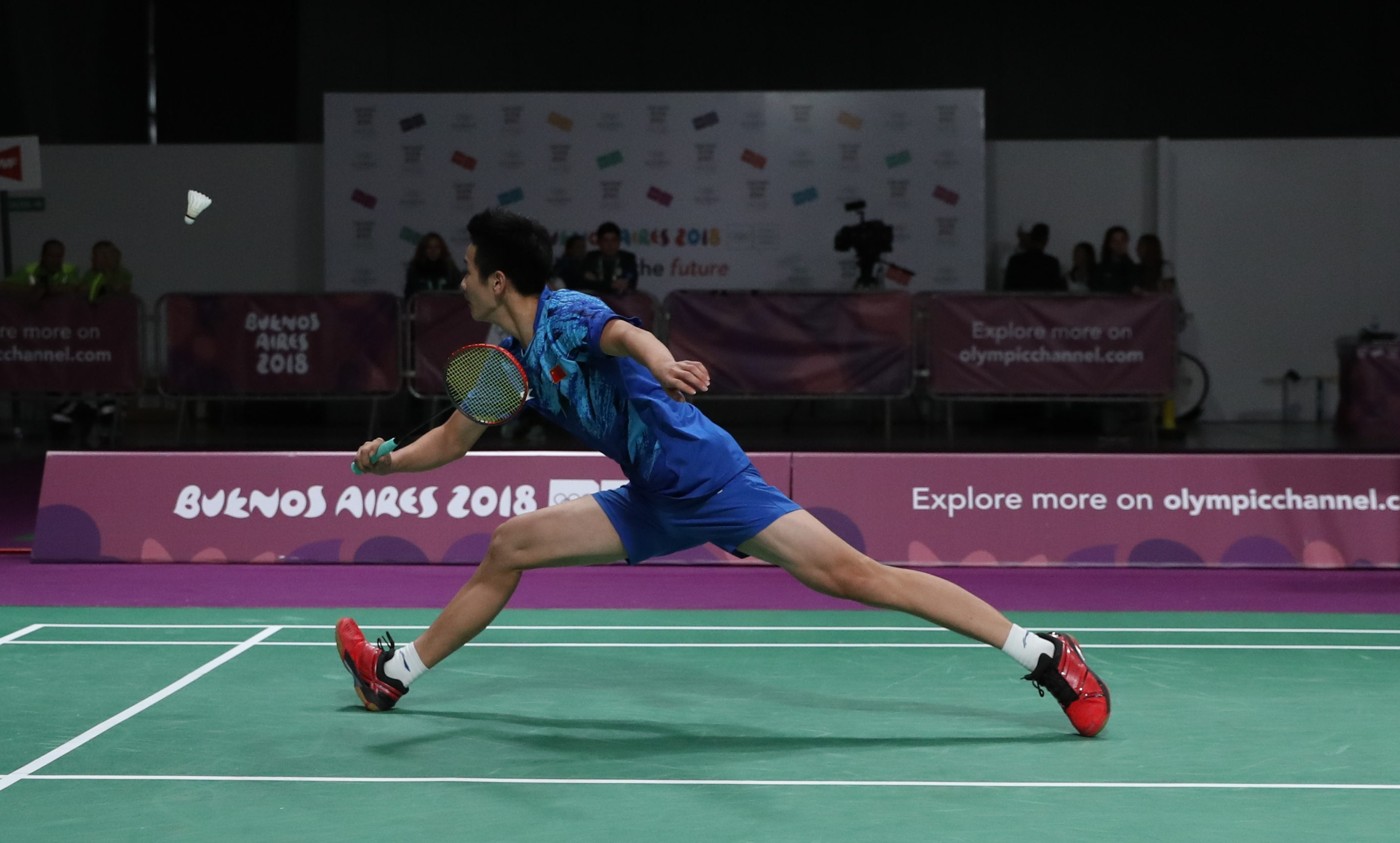 Final at the Boys Singles Badminton competition: Li Shifeng (China) vs. Lakshya Sen (India)